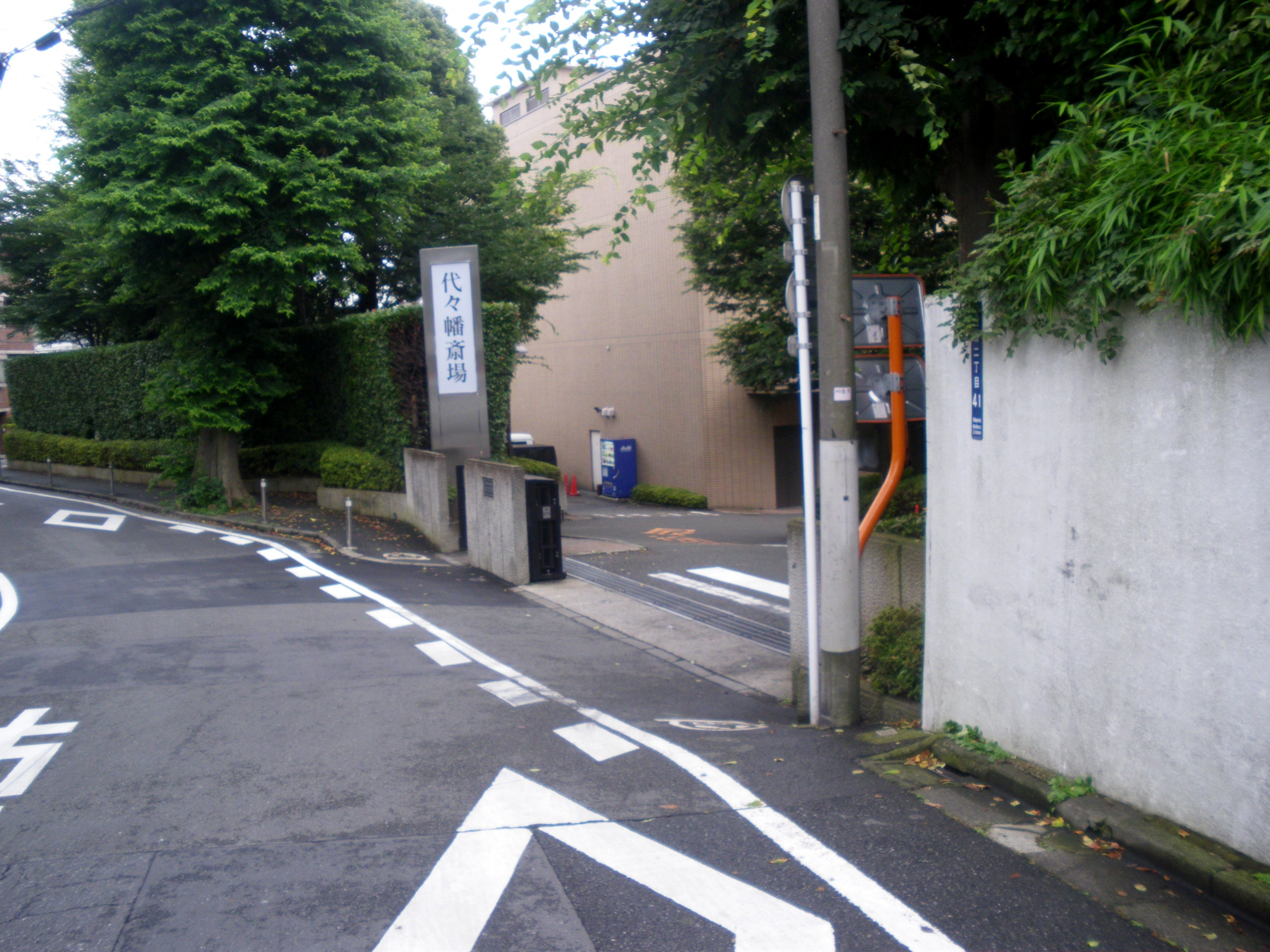 Yoyohata Funeral Hall(Nishihara,Shibuya,Tokyo)